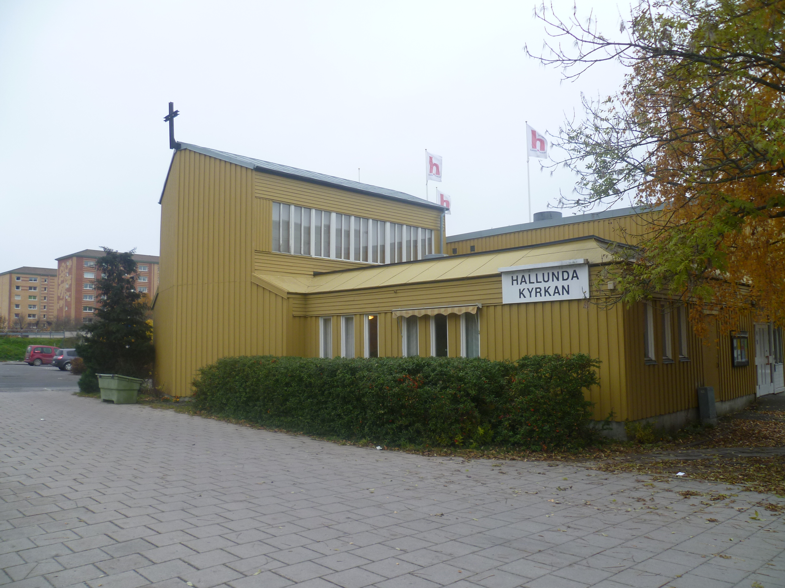 Hallundachurch, outskirt of Stockholm, Sweden